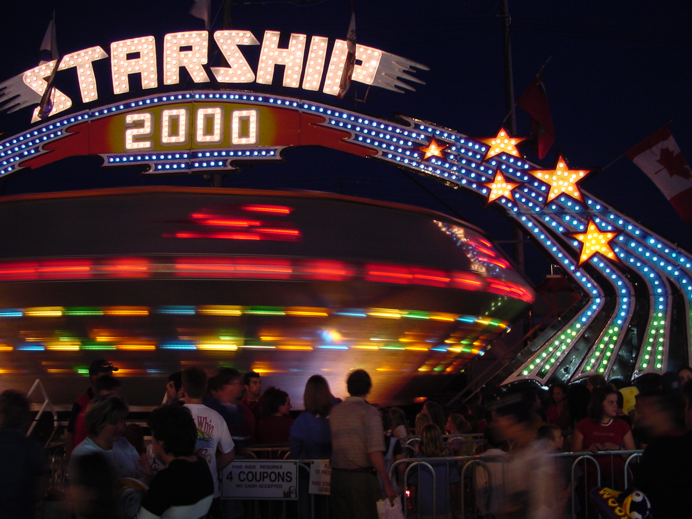 Photo taken by: Jason Minshull. Gravitron amusement ride under the Starship name. Take at The Western Fair in London Ontario Canada in September 2004.